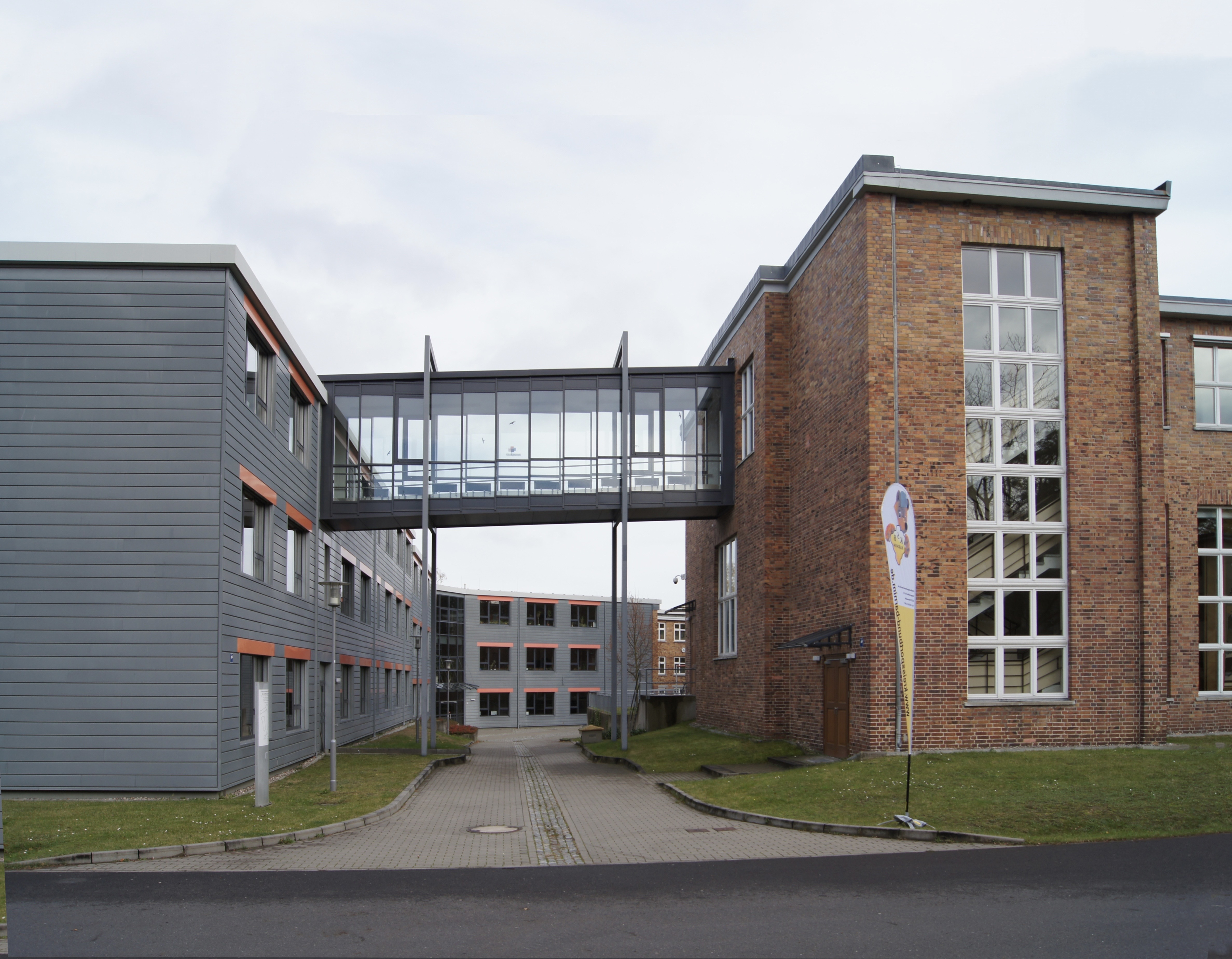 ADGB School Bernau, Brandenburg, Germany